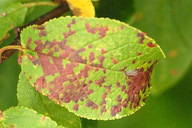 Septoria prunellae from Commanster, Belgian High Ardennes .